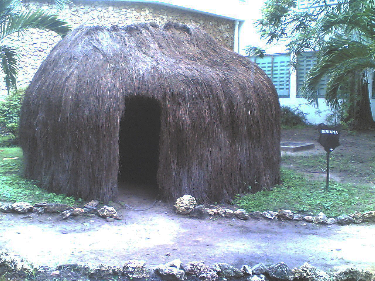 A replica of a Giriama hut at the Sarova White Sands Hotel in Mombasa, Kenya.